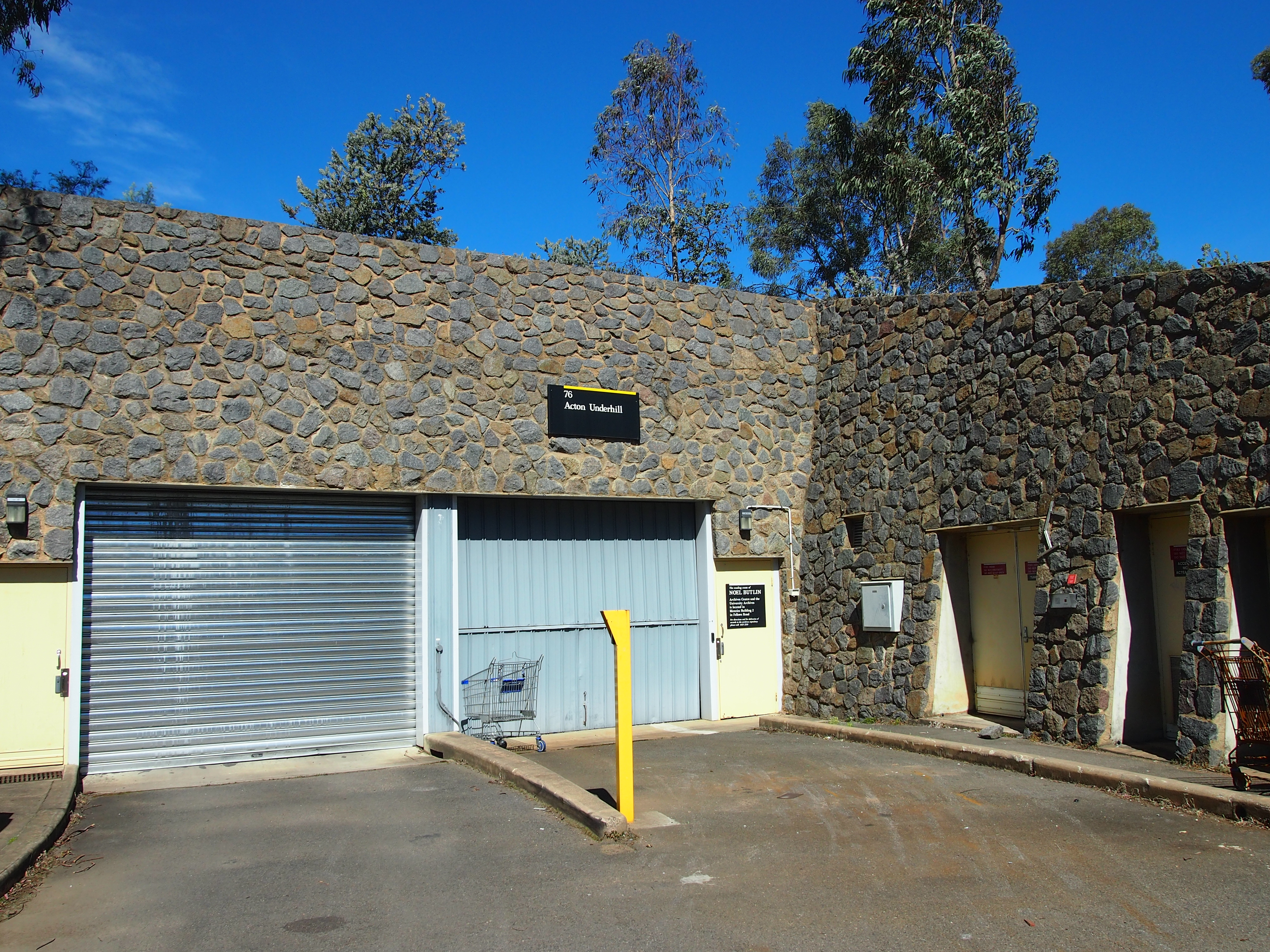 The entrance to Acton Underhill in October 2012